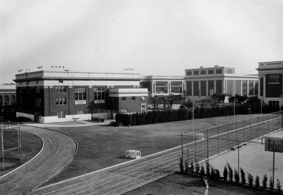 Thomas Jefferson High (Los Angeles) viewed from the rear in 1920